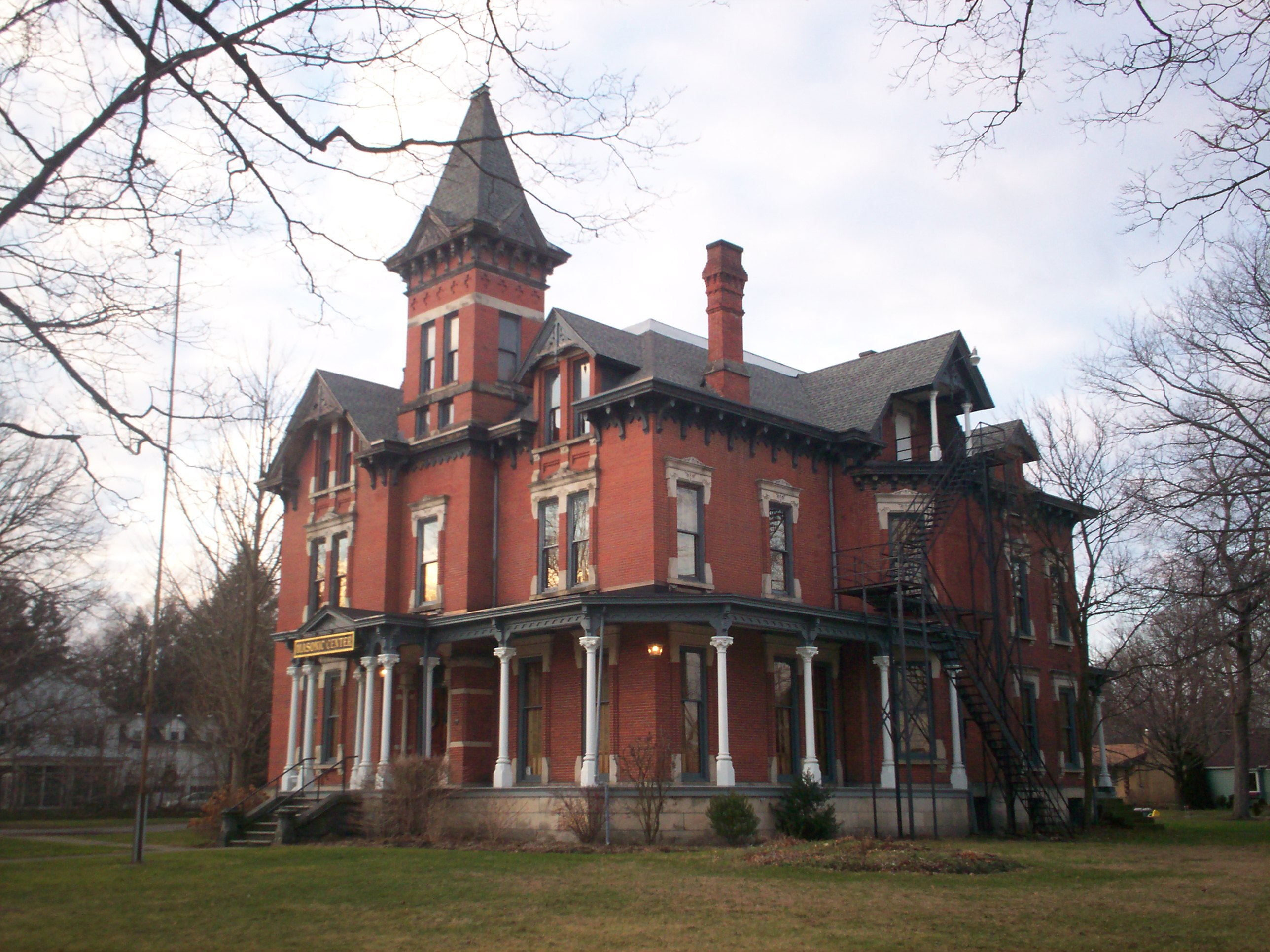 Picture of the Masonic Lodge in Kent, Ohio, which was originally built as the home of city namesake Marvin Kent. It was begun in 1880 and completed in 1884. It has been home to the Rockton Masonic Lodge since 1923.